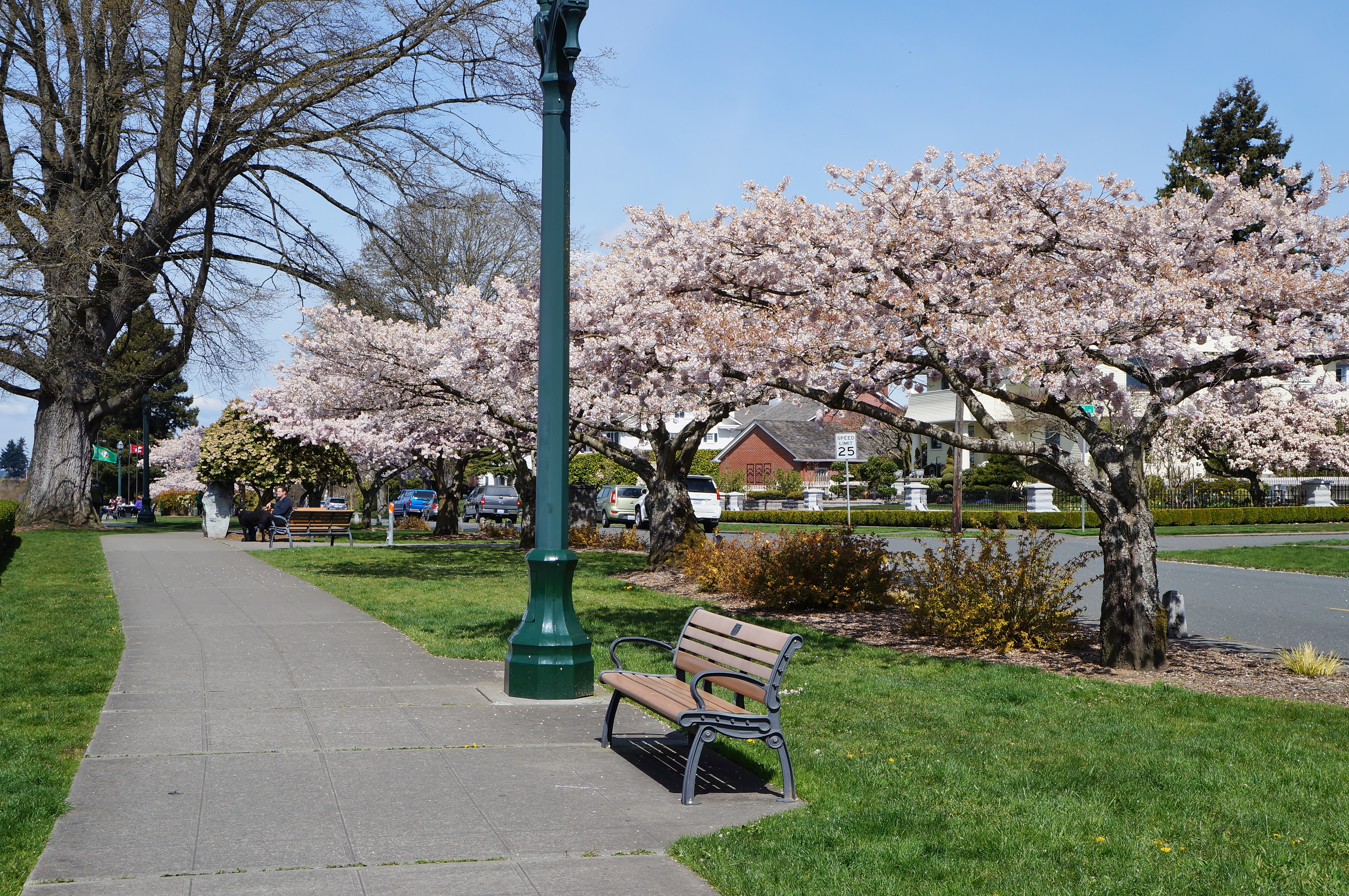 Looking north down Grand Avenue Park in northwestern Everett, Washington during the springtime, as planted cherry blossoms bloom.